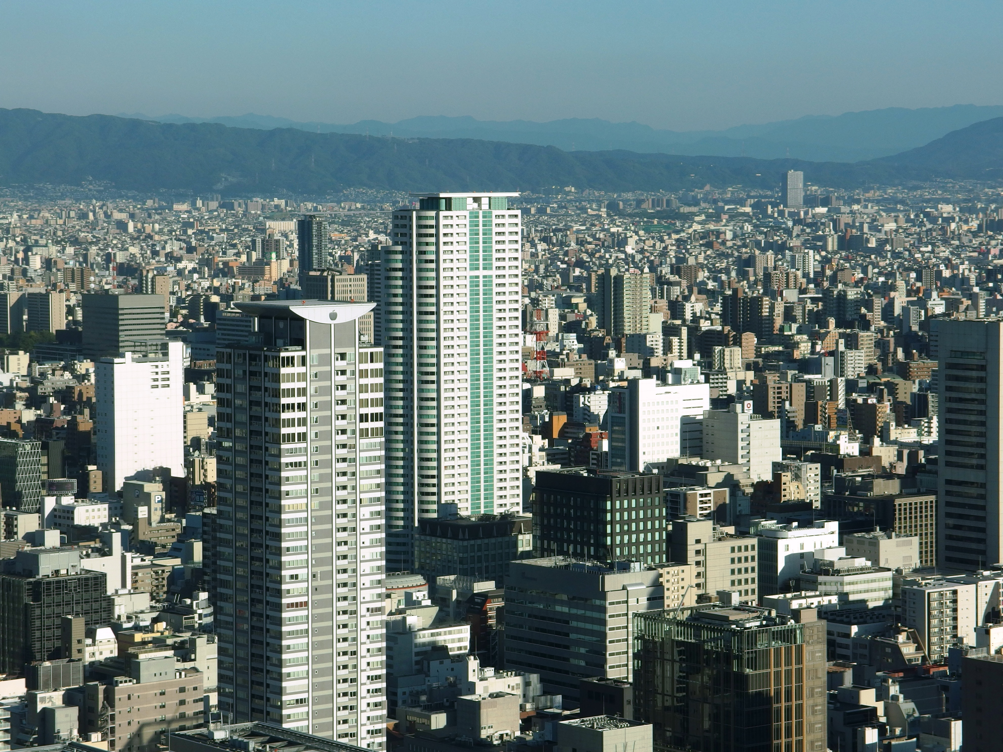 City Tower Osaka Views from the Nakanoshima Festival Tower in Osaka, Osaka Prefecture, Japan